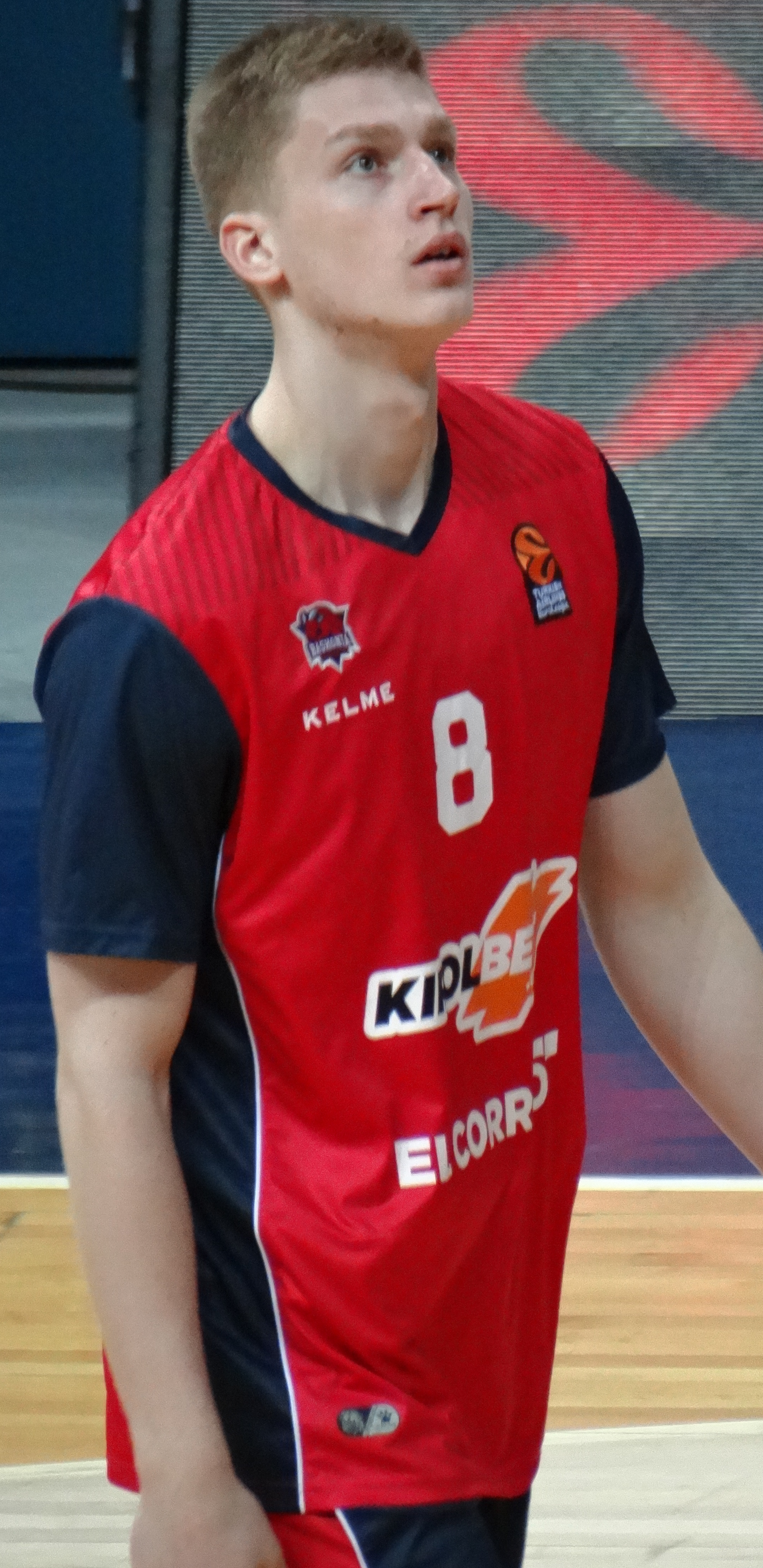 Rinalds Mālmanis Fenerbahçe Men's Basketball vs Saski Baskonia EuroLeague 20180418